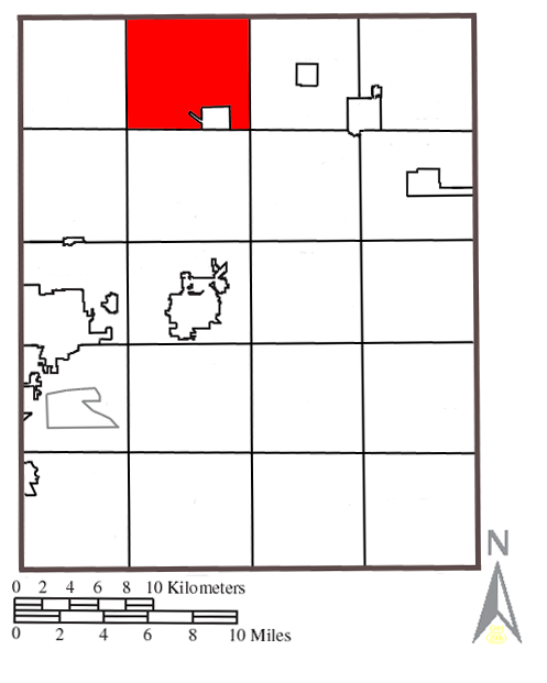 Map of Portage County, Ohio with Mantua Township highlighted.